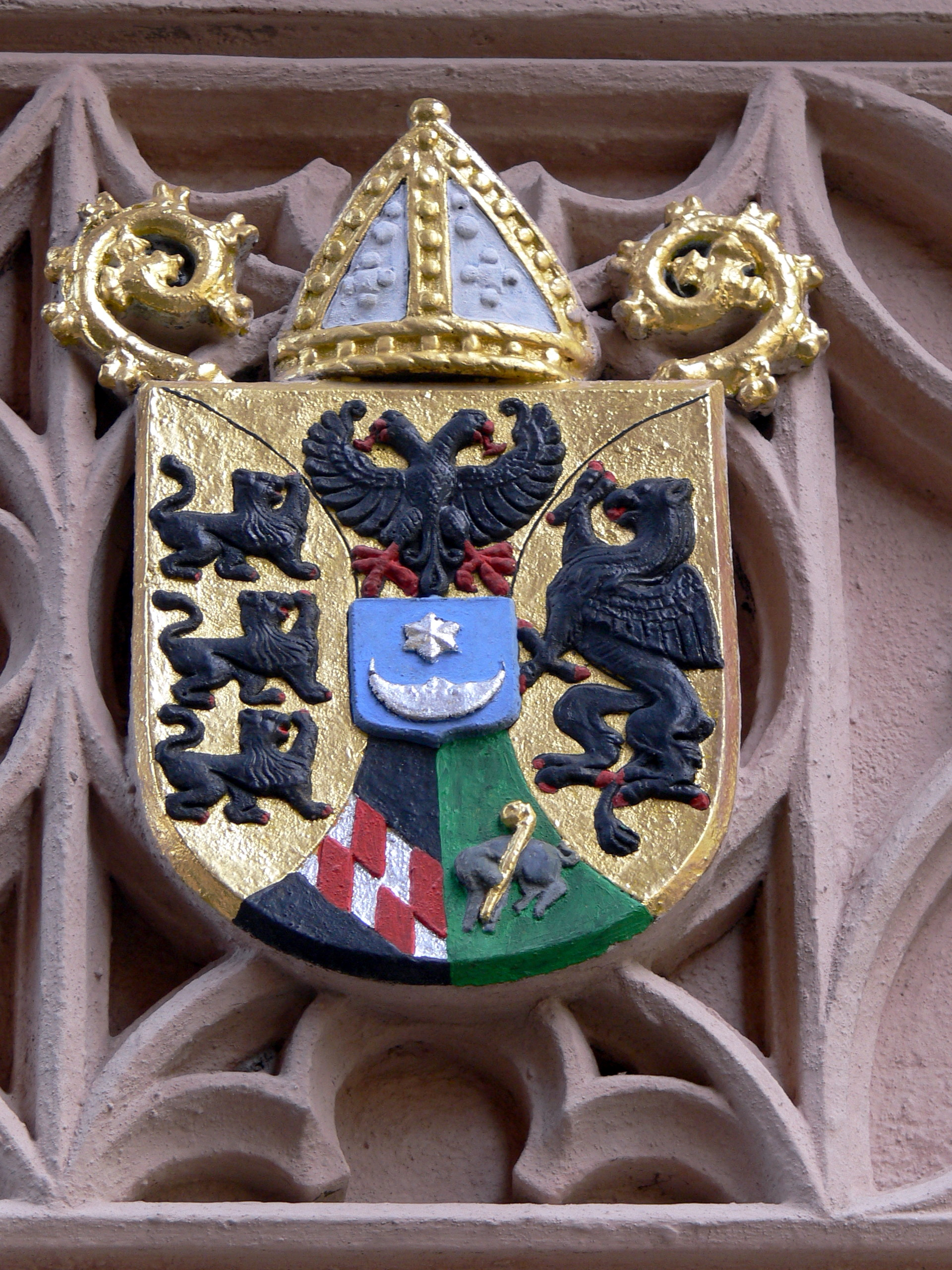 Schwabach. Town hall: Coats of arms of Abbot Eugene of Ebrach. Duke Frederik of Rothenburg donated the town to the abbey of Ebrach in 1157